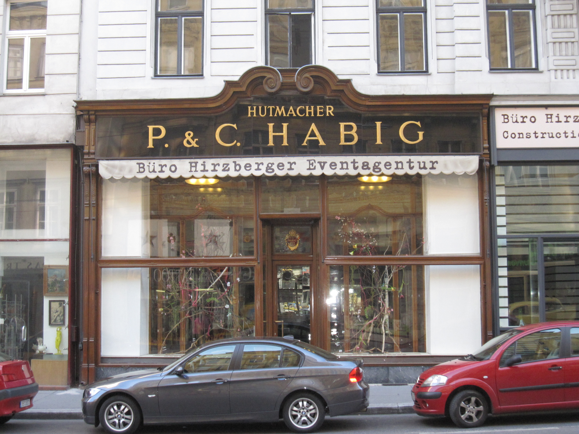 Habig-Hof in Vienna